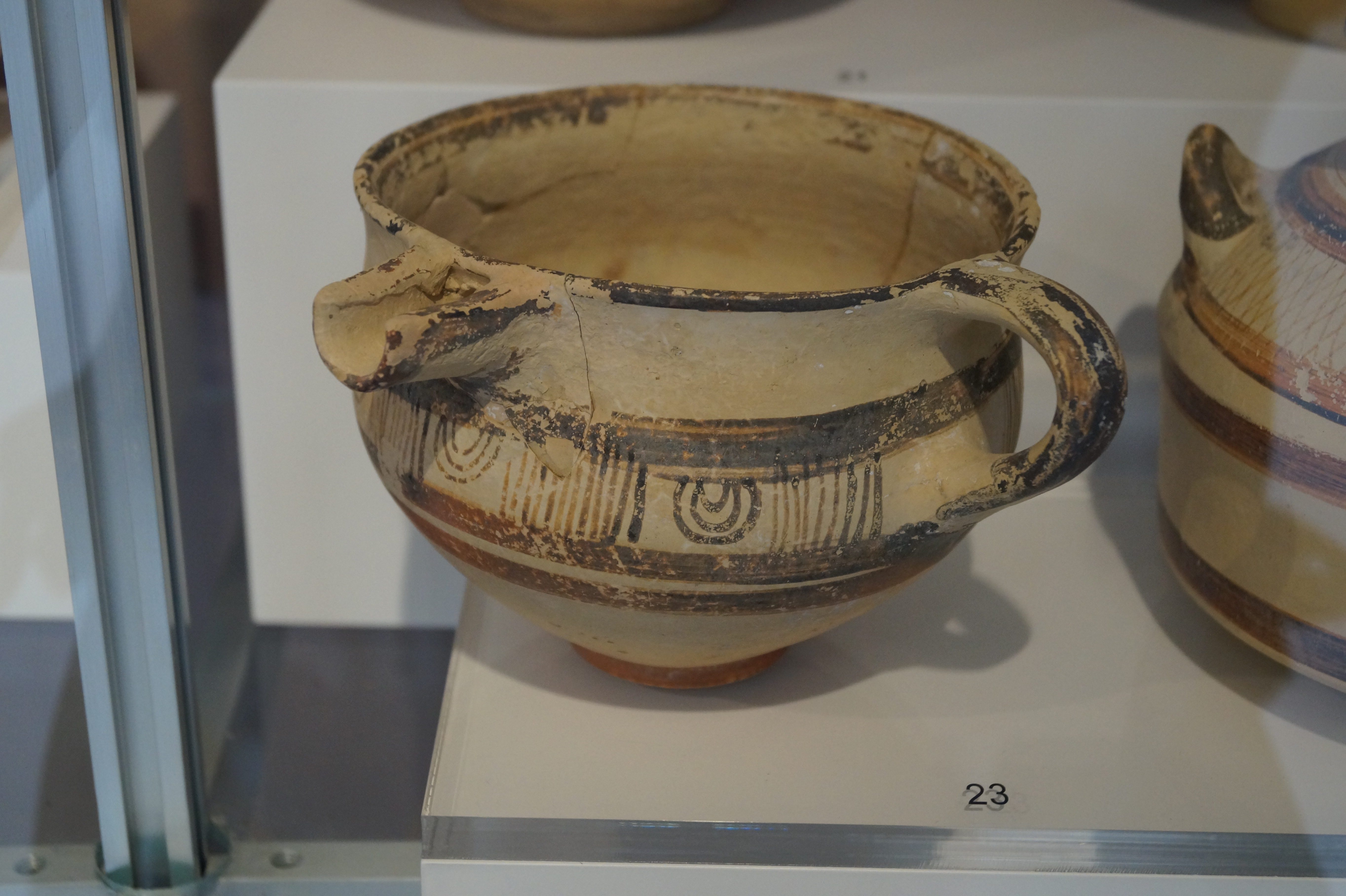 Archaeological Museum of Isthmia: Spouted kyathos from tomb III of the Mycenaean Cemetery of Kato Almyri (MI153), LH III B (1300–1200 BC).